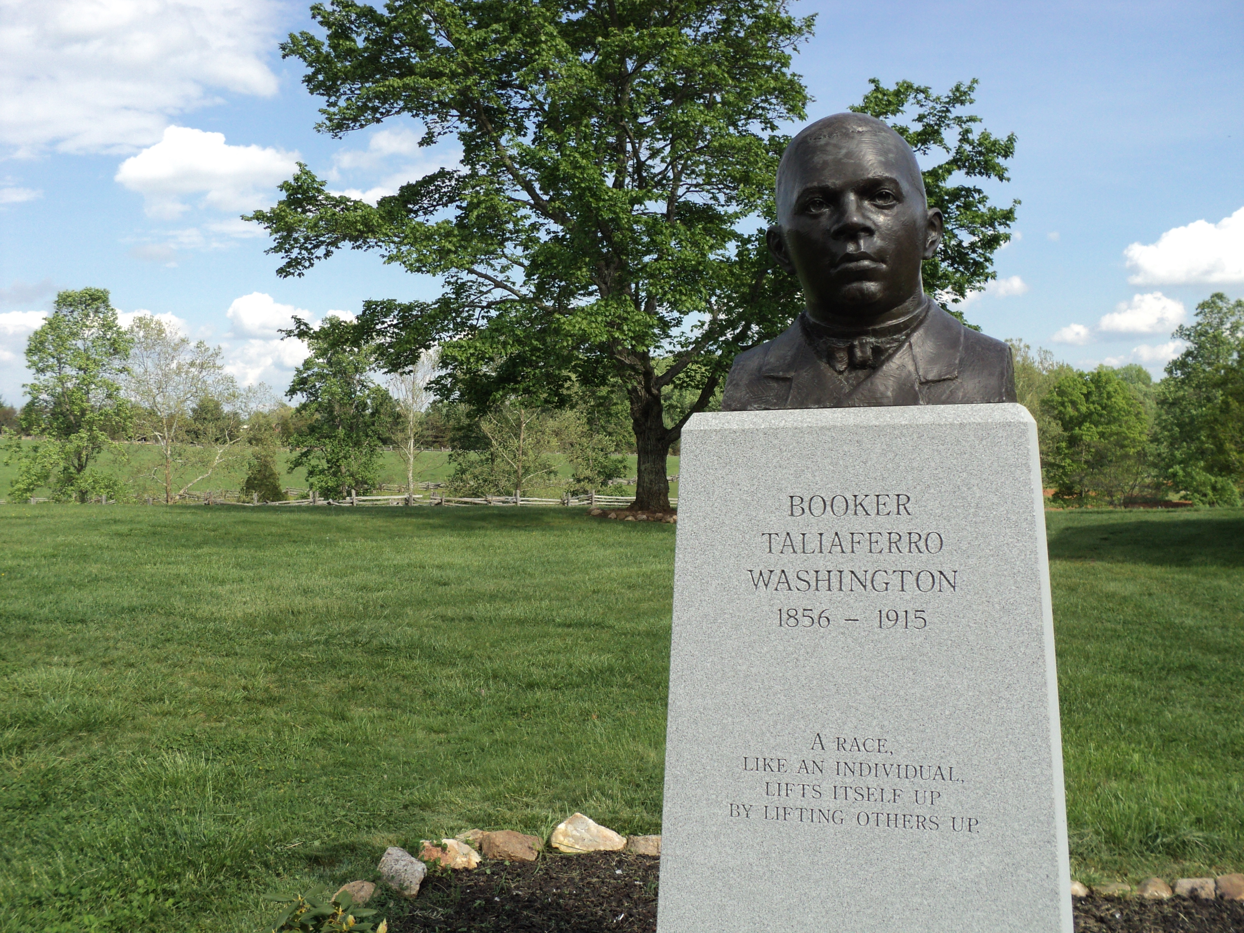 Monument to Booker Taliaferro Washington at the Booker T. Washington National Monument, near Hale's Ford, Franklin County, Virginia